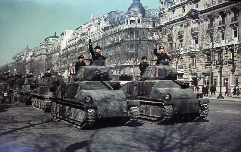 Paris (1940-1944) during the German occupation. This Agfacolor photo was not colorized.